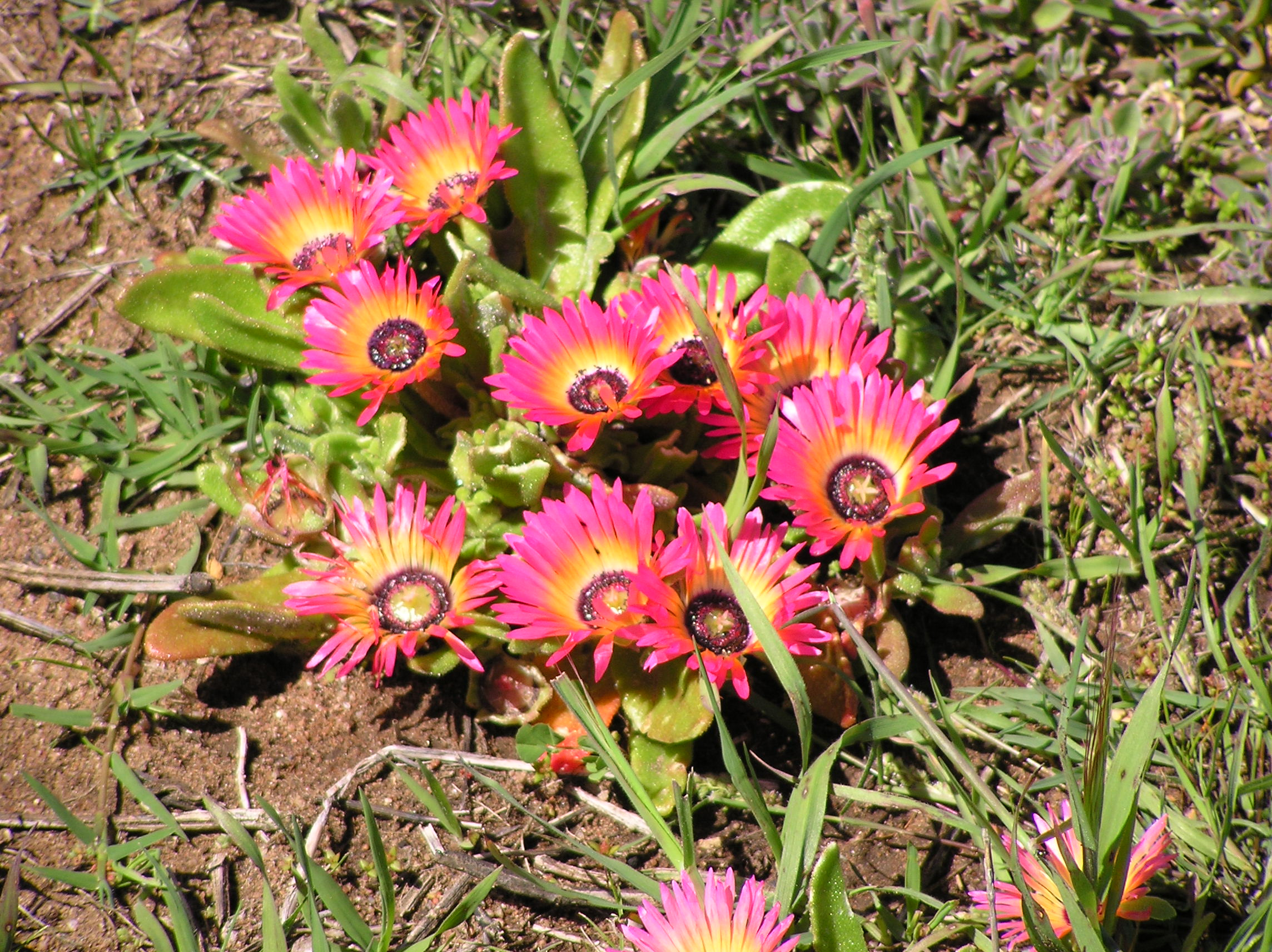 Narrow Leaf Bokbaaivygie, (Dorotheanthus apetalus (L.f.) .), West Coast National park, Western Cape, South Africa